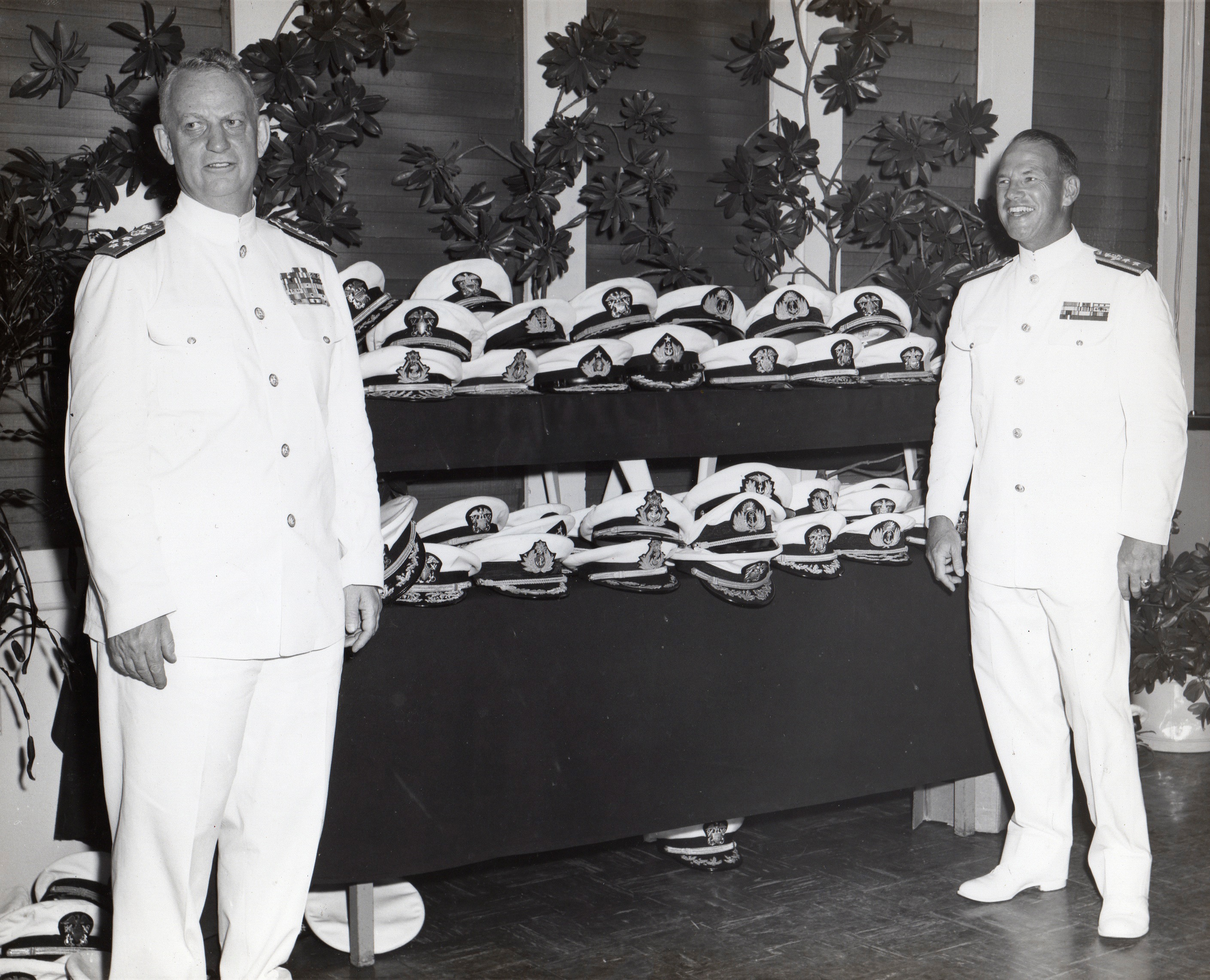 CNO and COMNAVFOR Key West